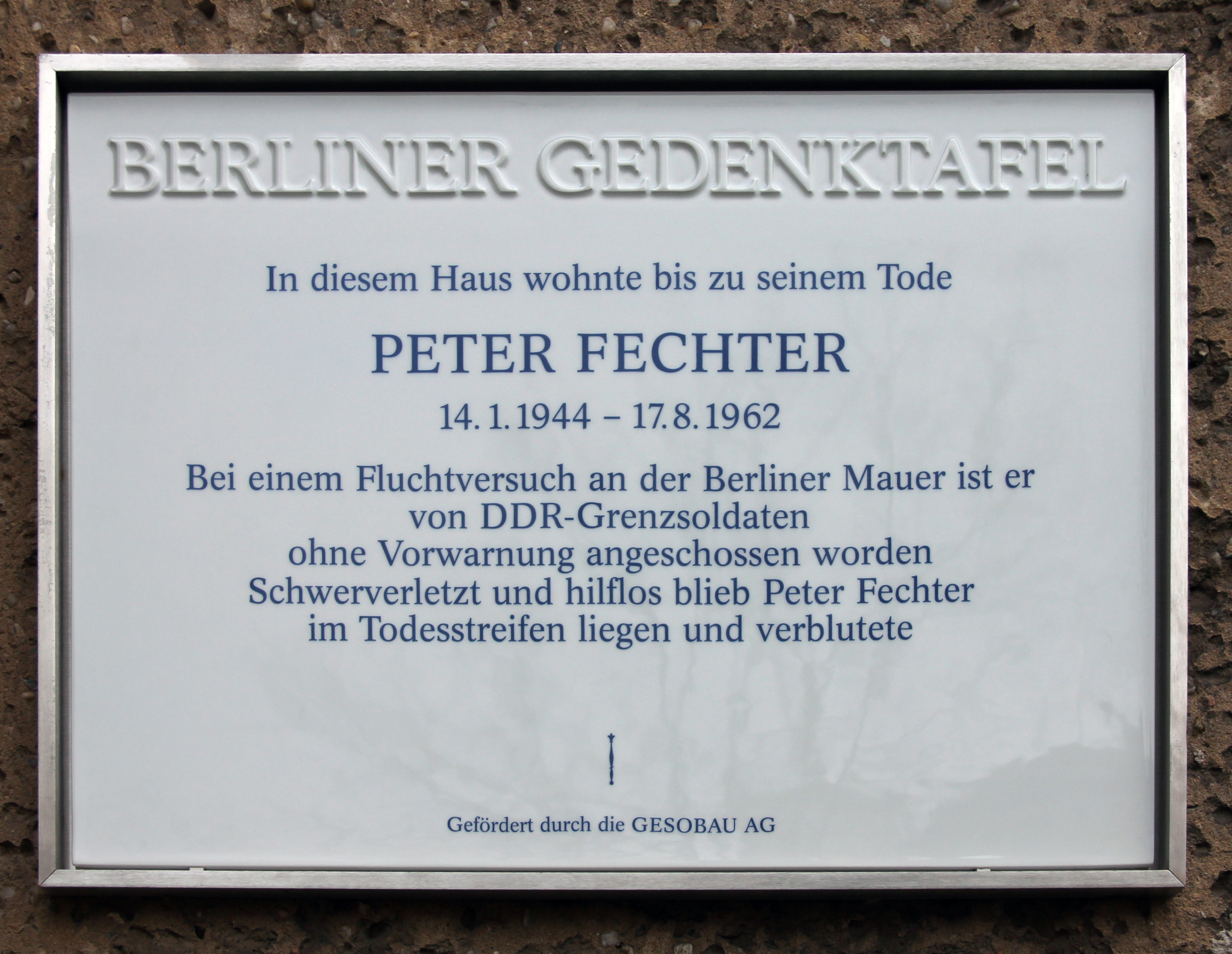 Berlin memorial plaque, Peter Fechter, Behaimstraße 11, Berlin-Weißensee, Germany